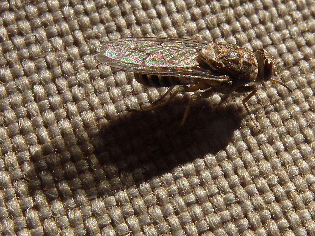 TseTse fly, Glossina_morsitans, vector of sleeping disease, picture taken in Tanzania